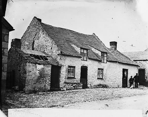 1 negative : glass, wet collodion, b&w ; 10 x 16.5 cm.